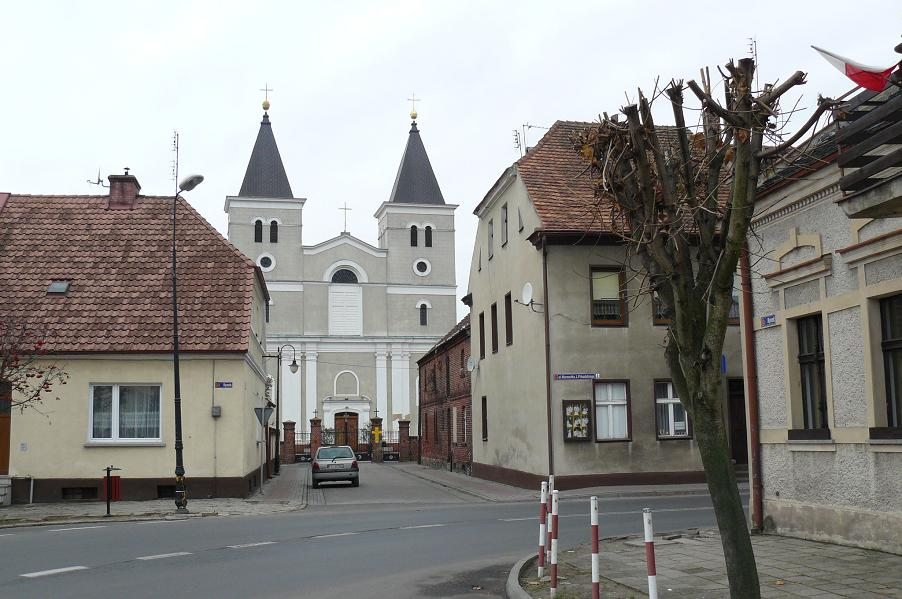 Babimost - church. PL